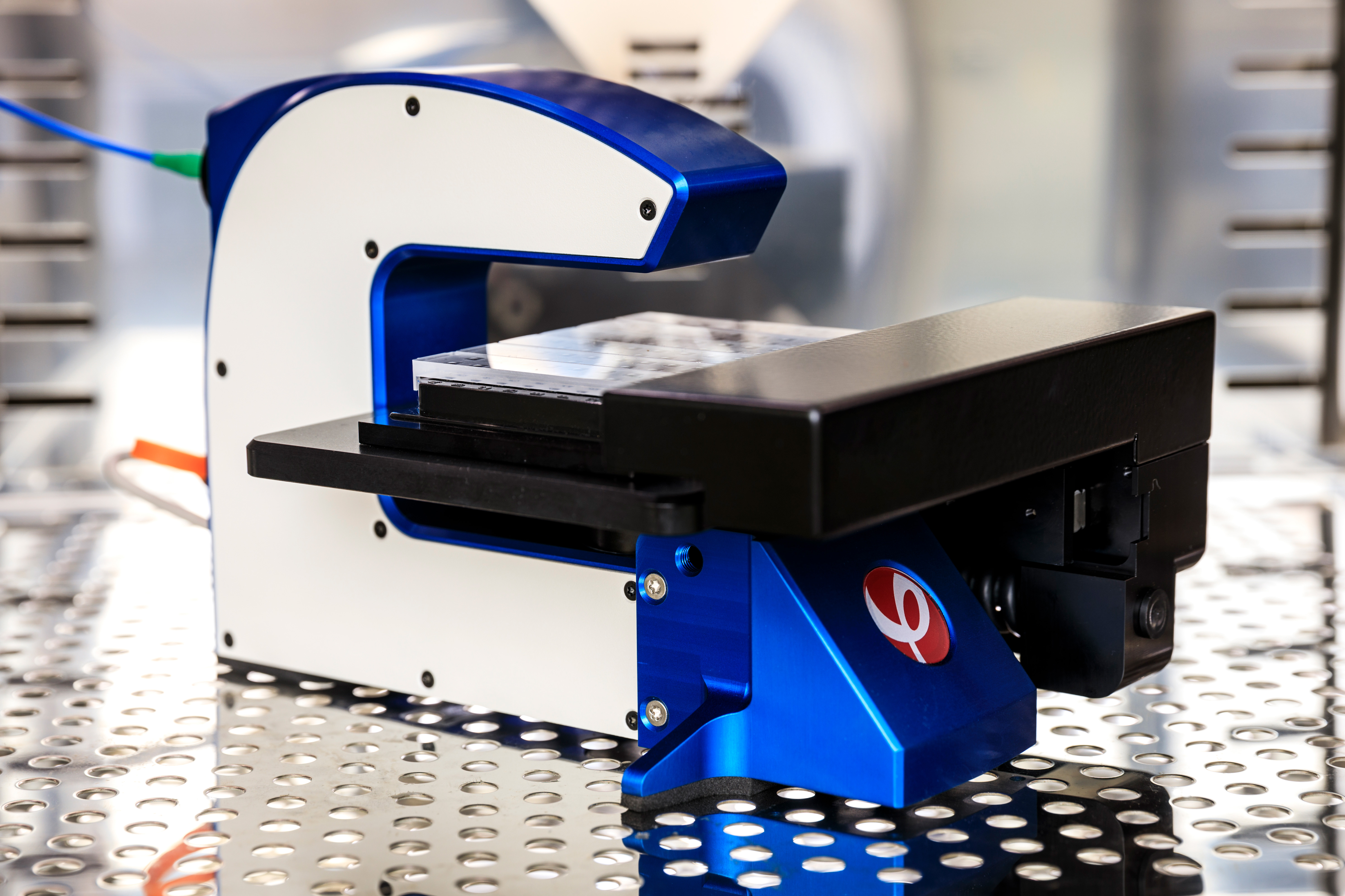 The HoloMonitor M4 live cell imaging system is based on the principle of holographic phase-shift imaging. Phase-shift images enable the non-invasive visualization and quantification of living cells without any stains or labels.